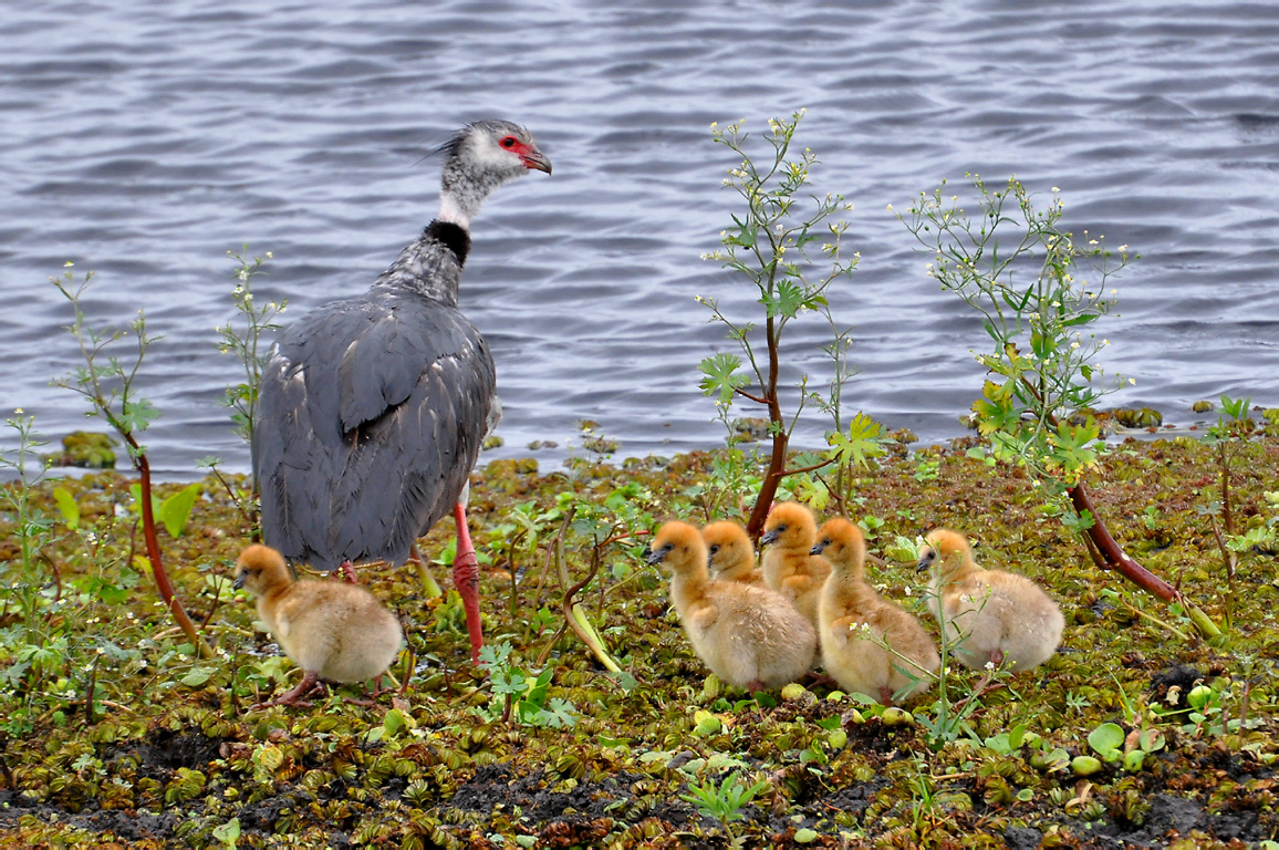 An adult Southern Screamer with young chicks in Santa Vitória do Palmar, Rio Grande do Sul, Brazil.